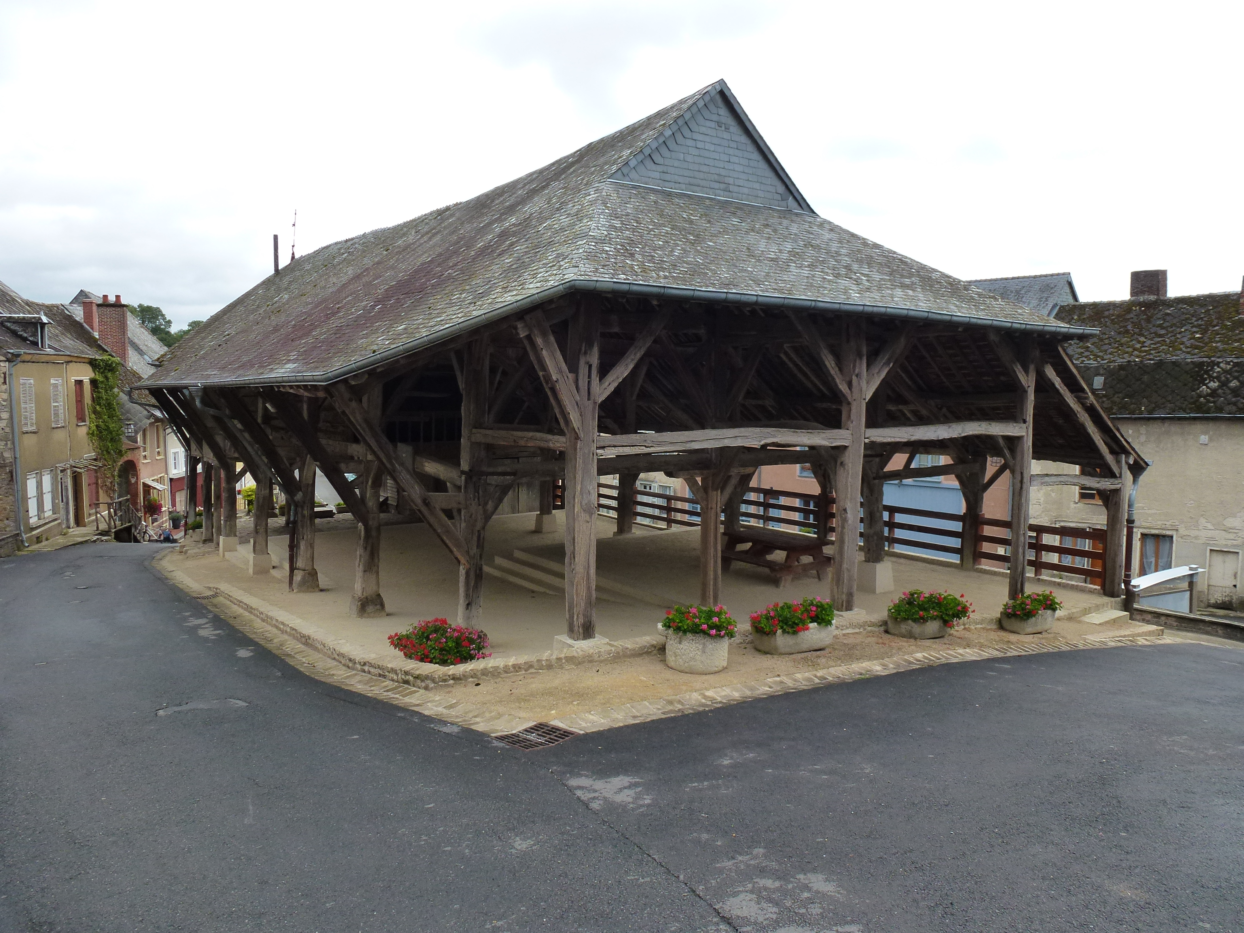 Wasigny (Ardennes) Halle